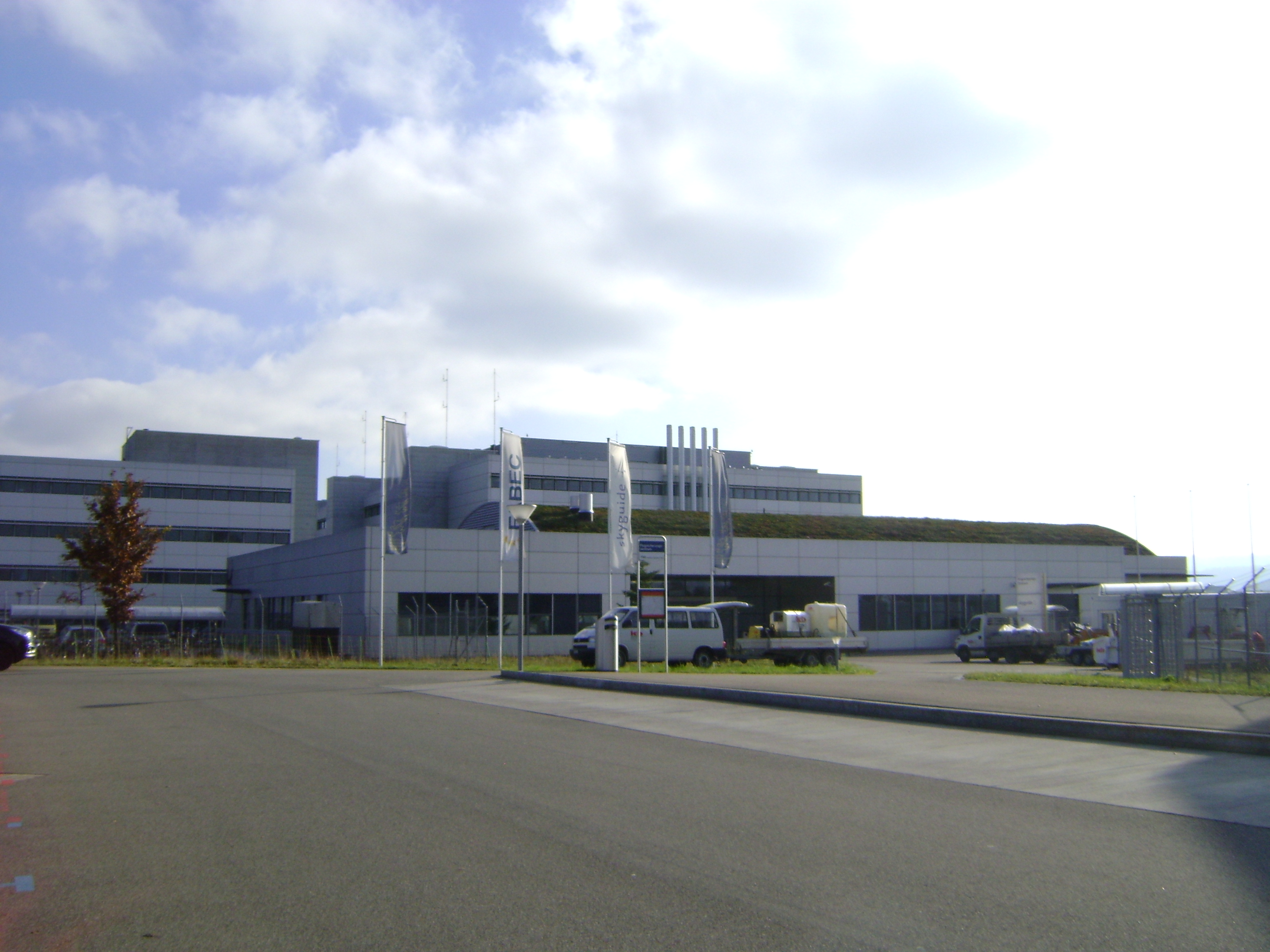 Skyguide air traffic control and air force operations center Zürich / Dübendorf Military Airport